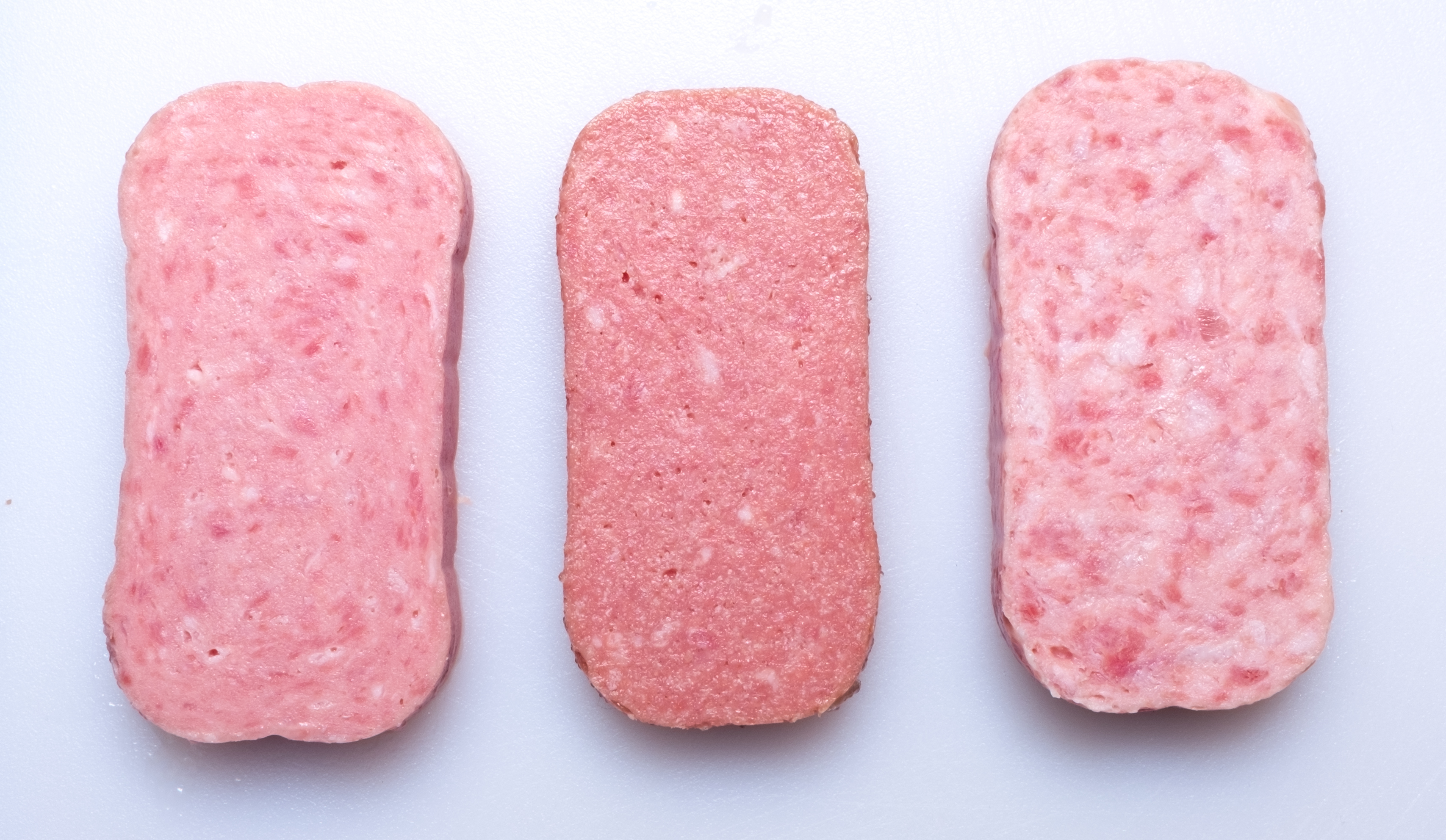 Side by side comparison of Spam (L), Treet (C), and Walmart Great Value Luncheon Meat (R)